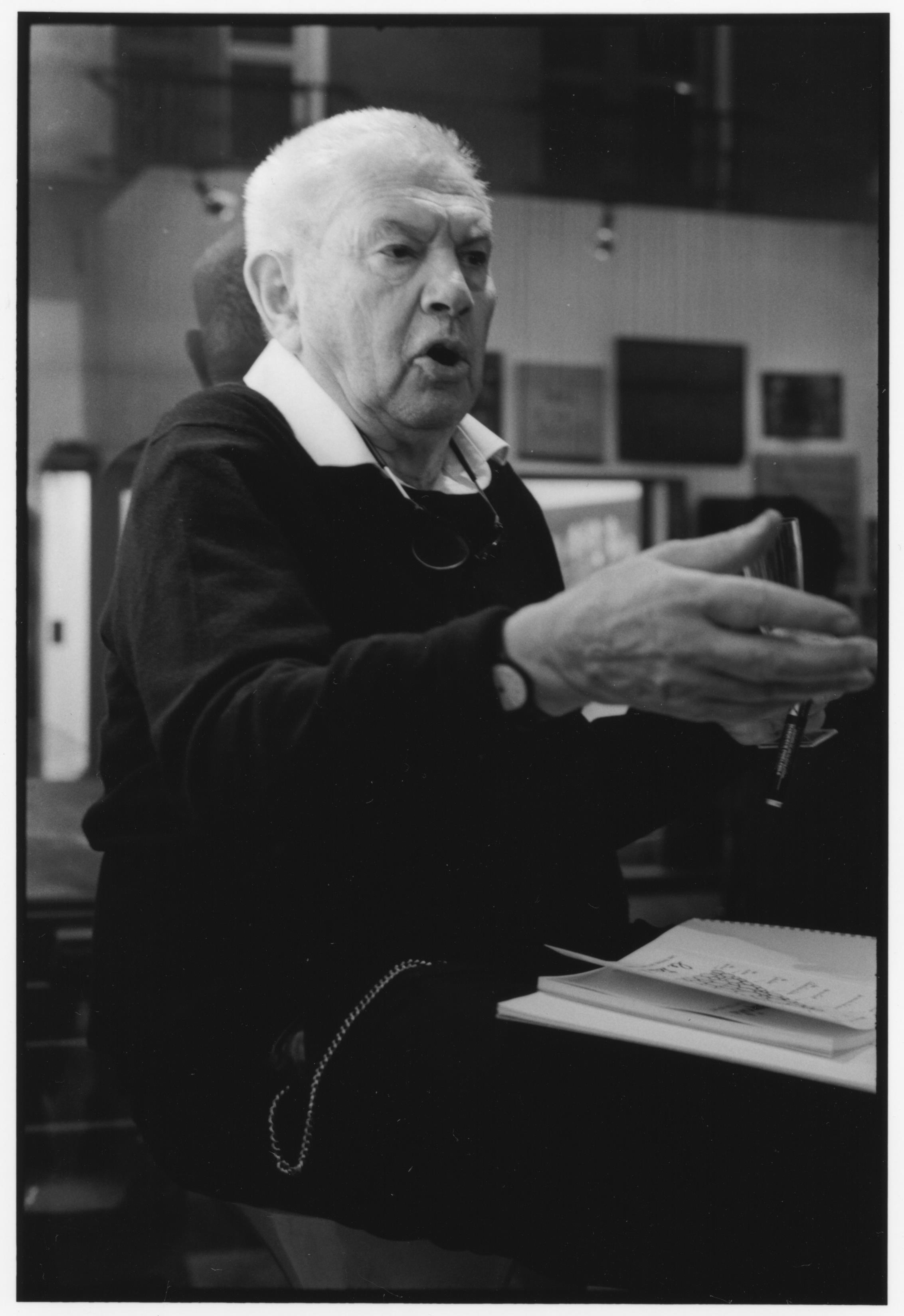 Benjamin Vautier in december 2016 by Olivier Meyer